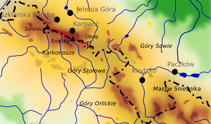 Polish_Czech Friendship Trail on the map of Sudetes